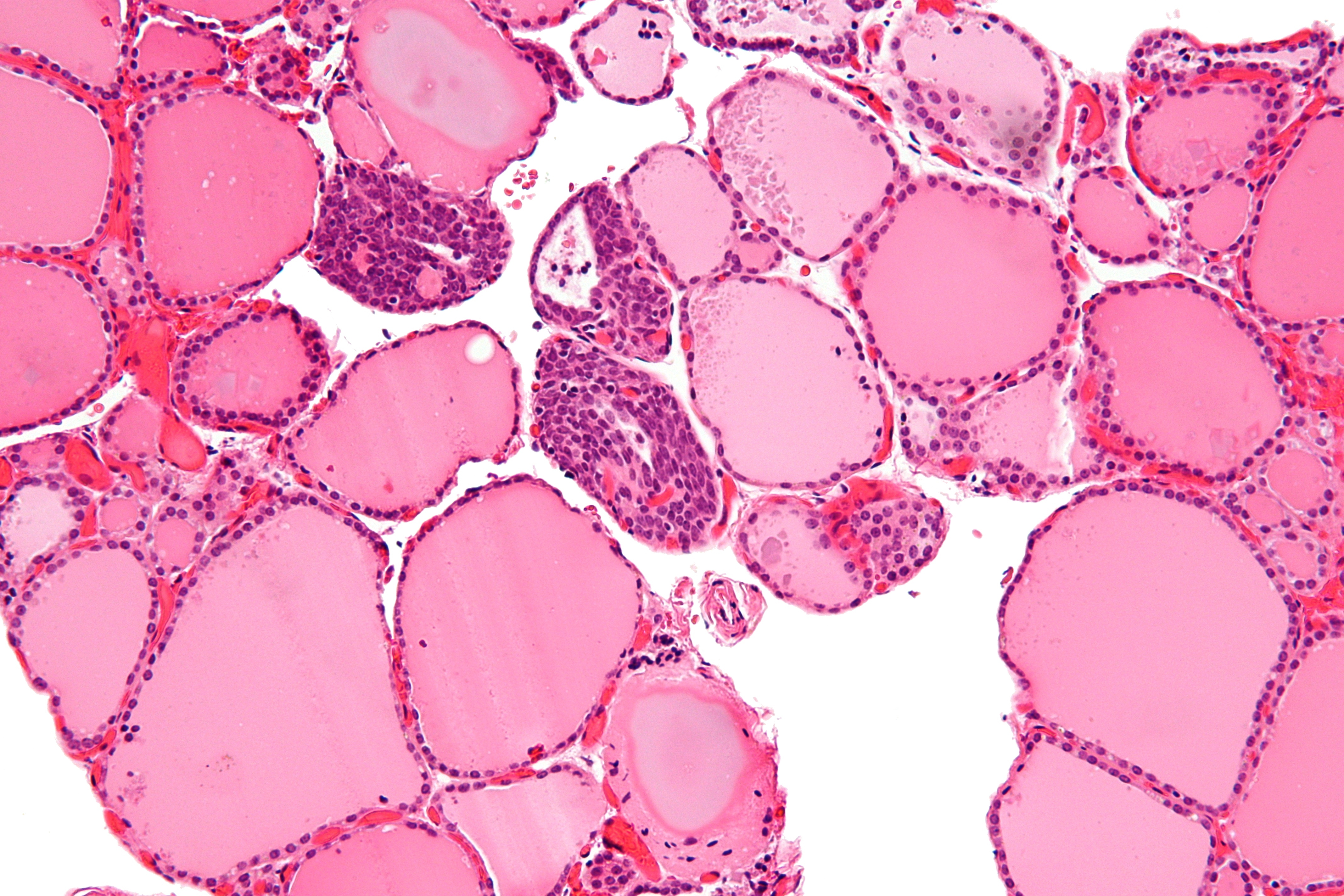 High magnification micrograph of a solid cell nest of the thyroid gland. H&E stain. Solid cell nests may be solid or cystic.[1] Related images Intermed. mag. High mag. Very high mag. References ↑ (Feb 1994). "Solid cell nests of the thyroid. A histologic and immunohistochemical study.". Am J Clin Pathol 101 (2): 186-91.